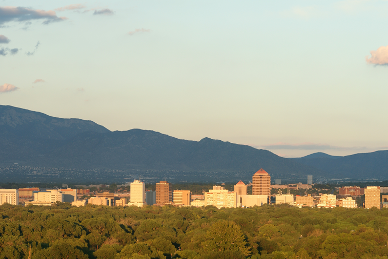 Albuquerque and Sandia Mountains at sunset This image was created with Hugin